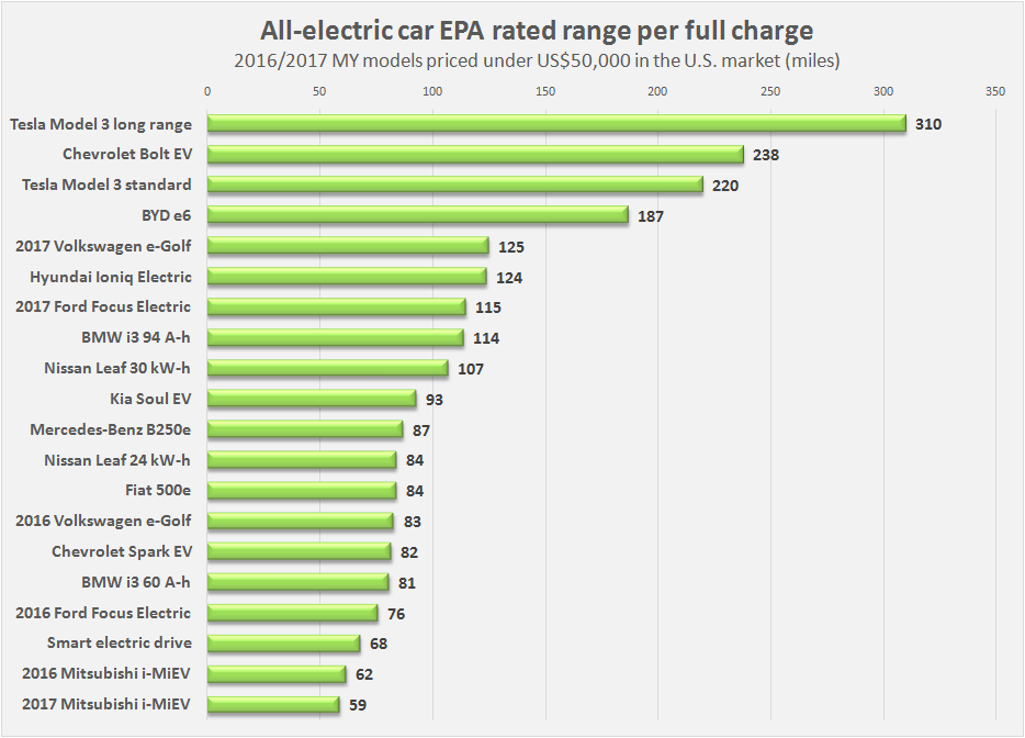 Comparison of EPA rated range for all-electric cars available in the U.S. market and priced under USD50,000 up until July 2017. Only model year 2016 and 2017 cars, and the upcoming Tesla Model 3, are included. Data sources: MY 2016 & 2017 from Energy Efficiency & Renewable Energy, U.S. DoE; General Motors for upcoming 2017 Bolt EV; and Tesla Motors EPA estimate for both battery options available for Tesla Model 3 released in July 2017.